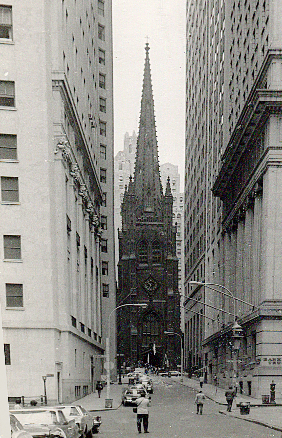 Trinity_church_as_seen_from_Wall_street. N.Y.